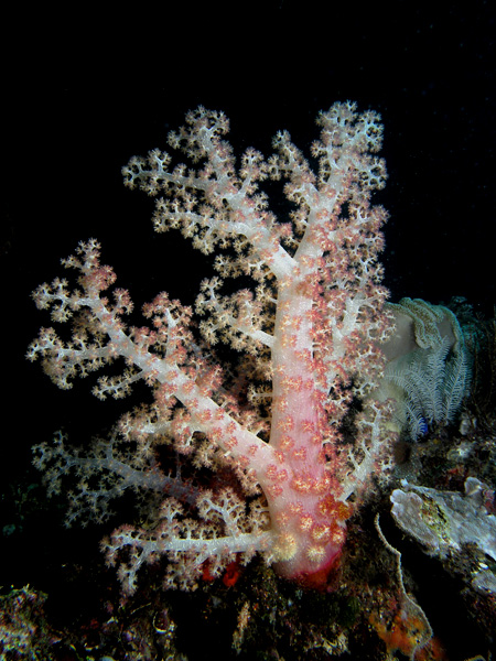 Soft coral on the North coast of East Timor. Dendronephthya klunzingeri